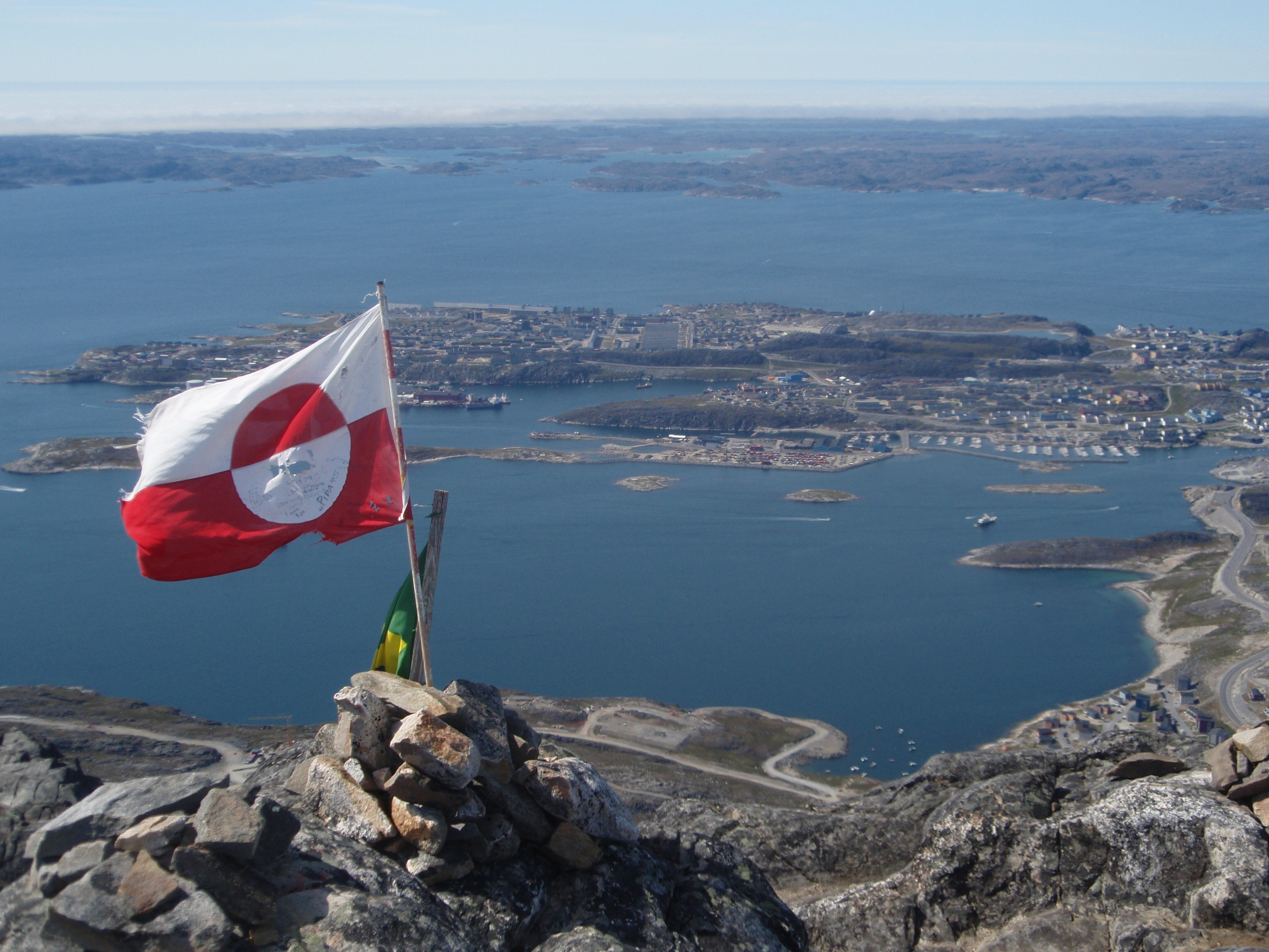 Nuuk seen from the mountain 'Store Malene'